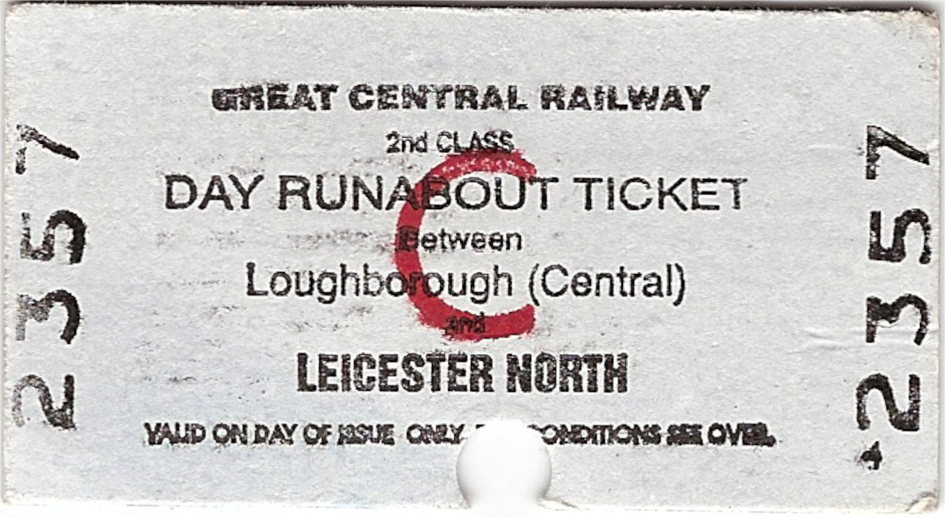 Railway ticket.